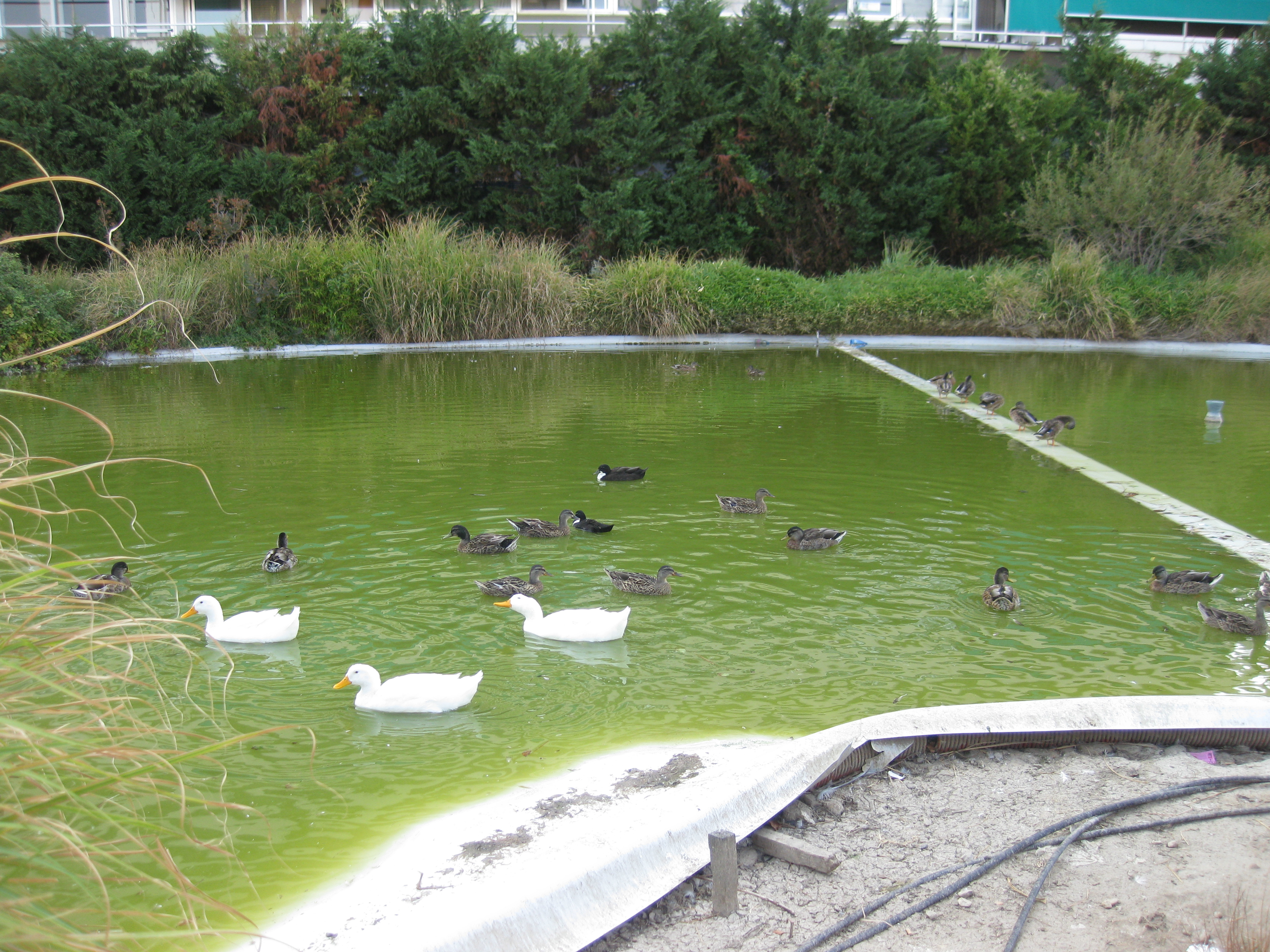 Acquarium LE NAVI - CATTOLICA ITALY